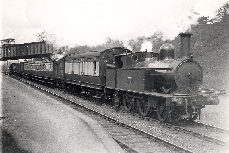 5ft 6in 2-4-2 tank engine, in LNWR livery